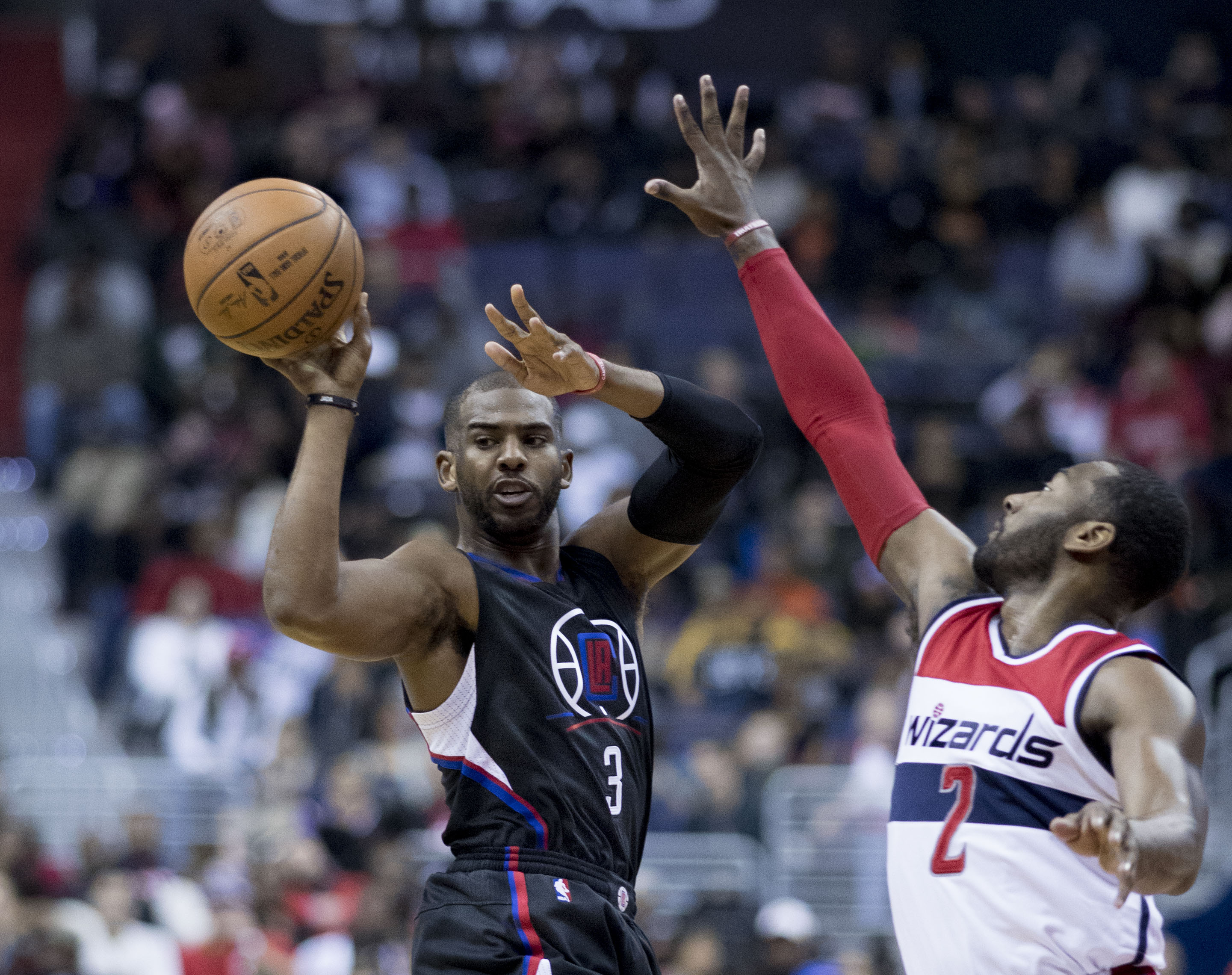 Clippers at Wizards 12/18/16